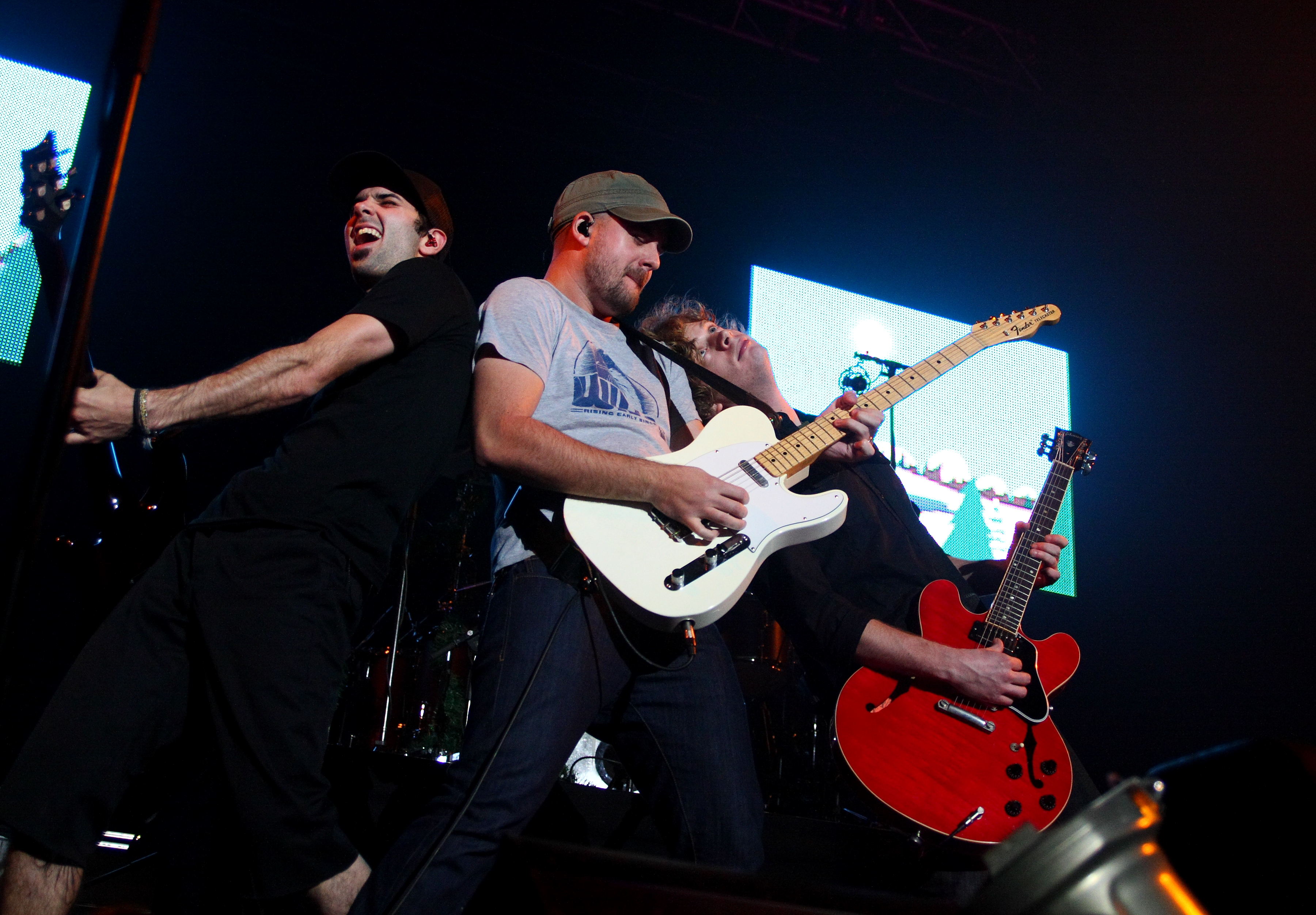 Jon Schneck (left), Matthew Hoopes (center), and Matthew Thiessen (right) performing with Relient K in 2008.